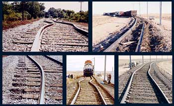 Image is "Buckle1.jpg" on the US DOT Volpe Center page at in Section 1.2